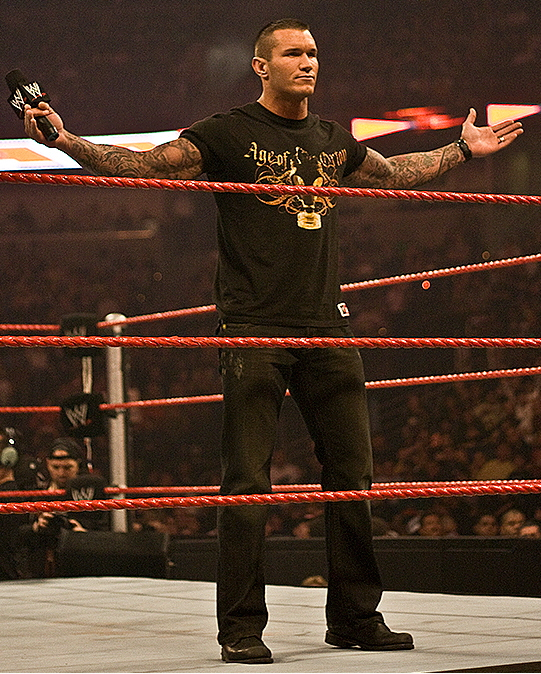 Randy Orton at a live event on Monday Night Raw in Tampa, Florida 2008.